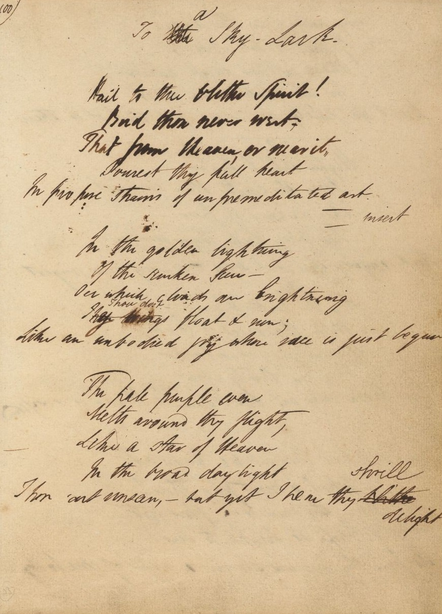 Manuscript page of "To a Skylark" by Percy Bysshe Shelley (1792-1822). MS Eng 258.2, Houghton Library, Harvard University